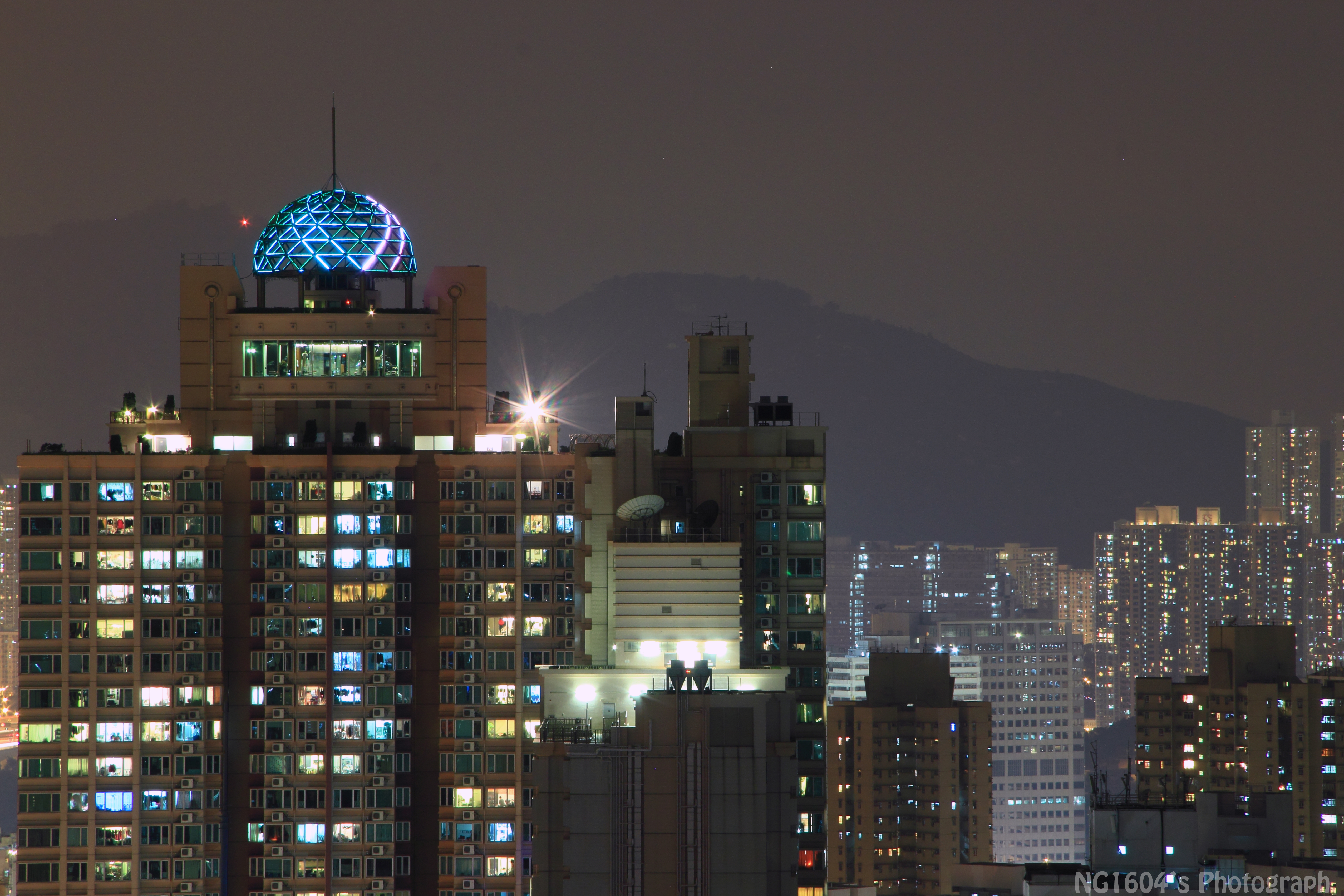 The night view of The Apex.